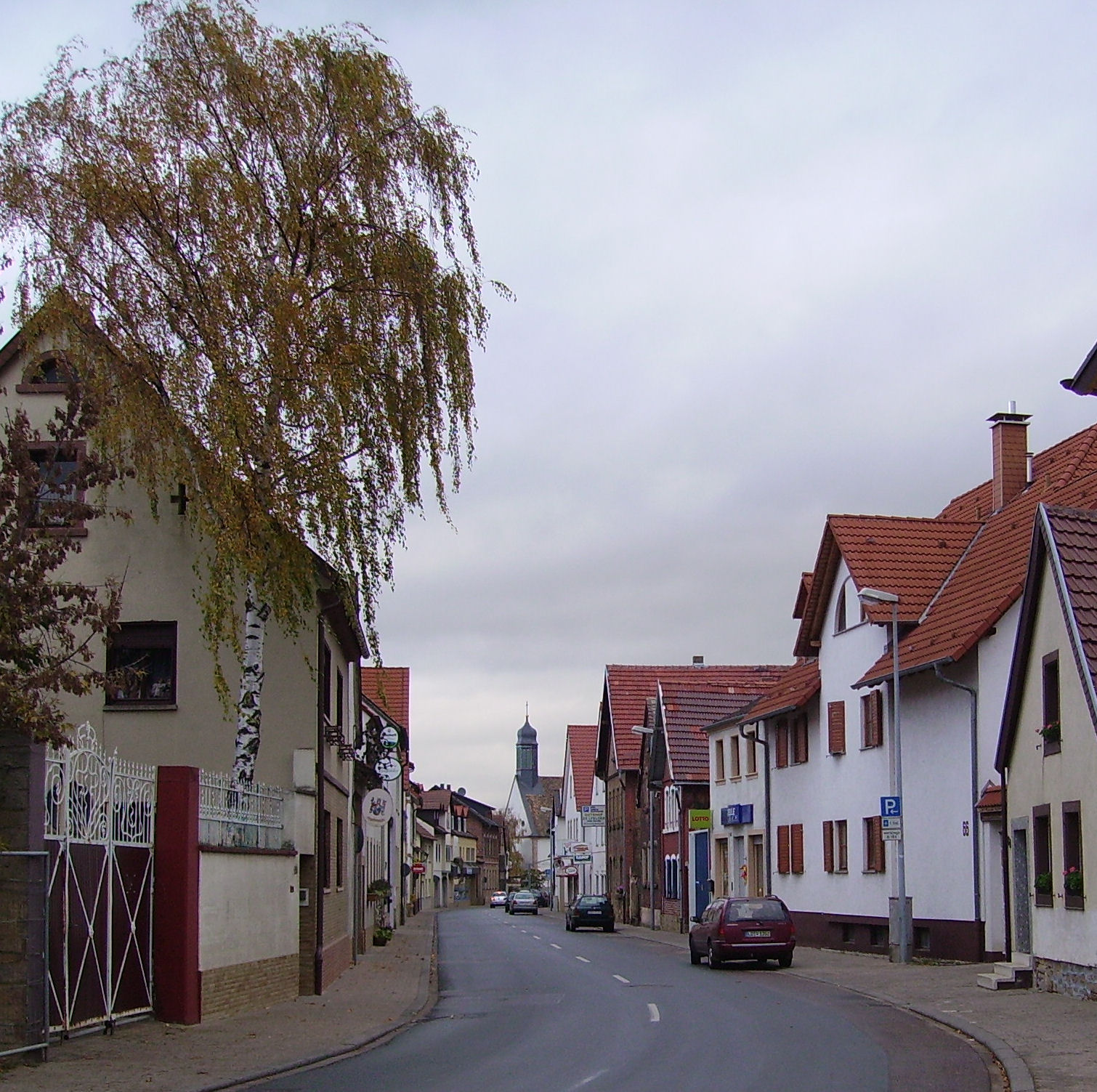 view of Meckenheim (Pfalz), Germany